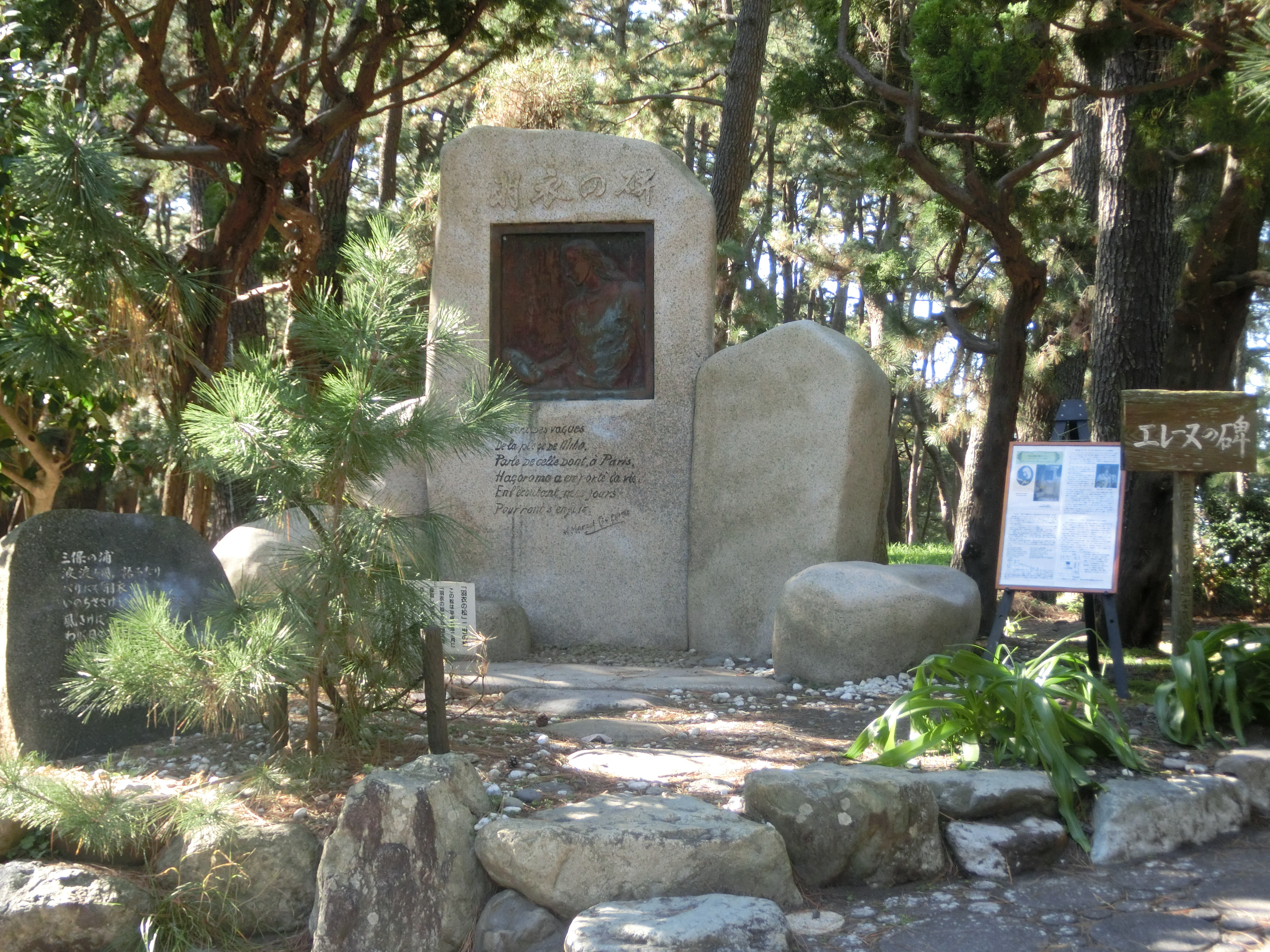 Elene Giuglaris monument